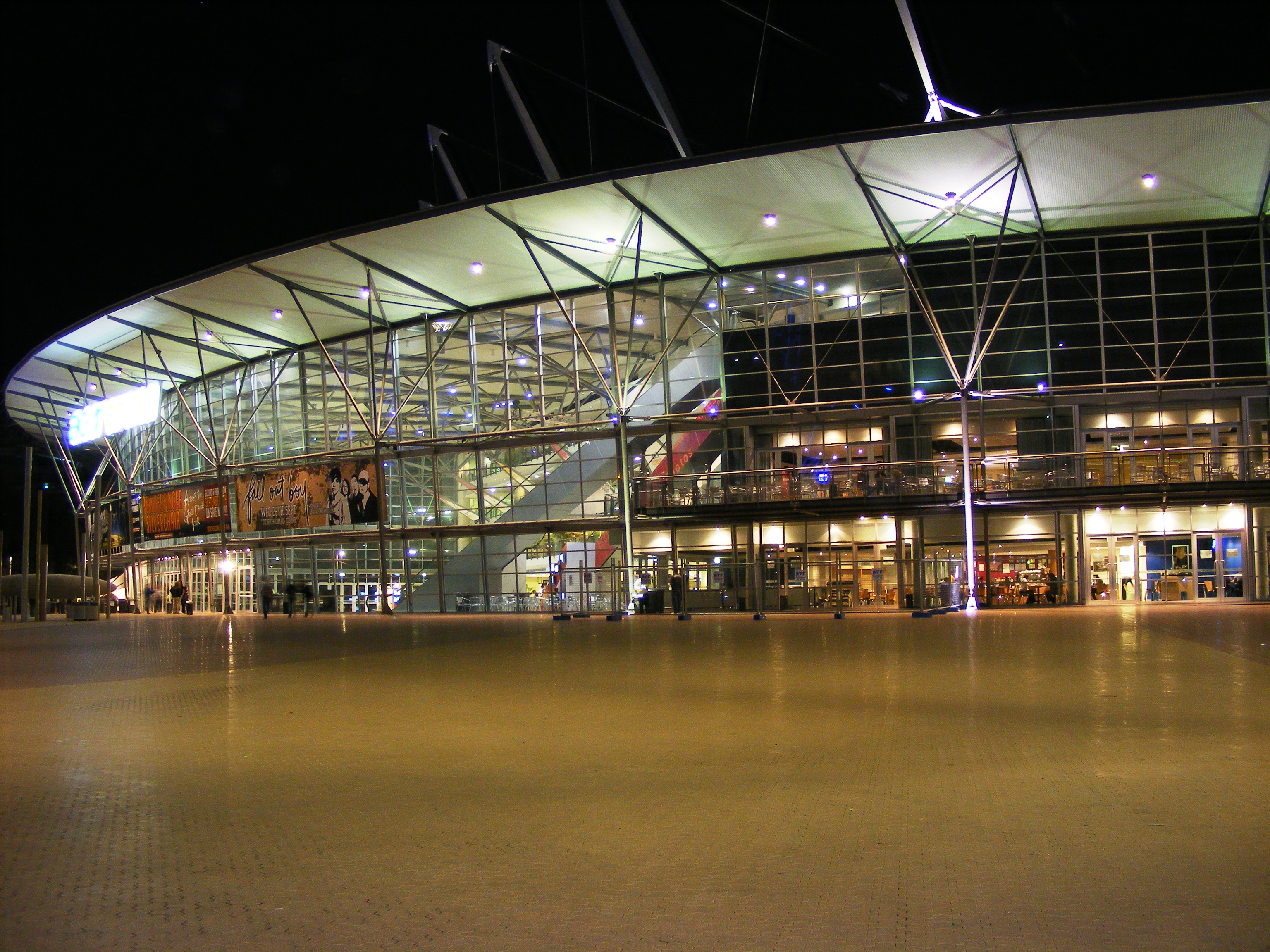 Acer arena what else